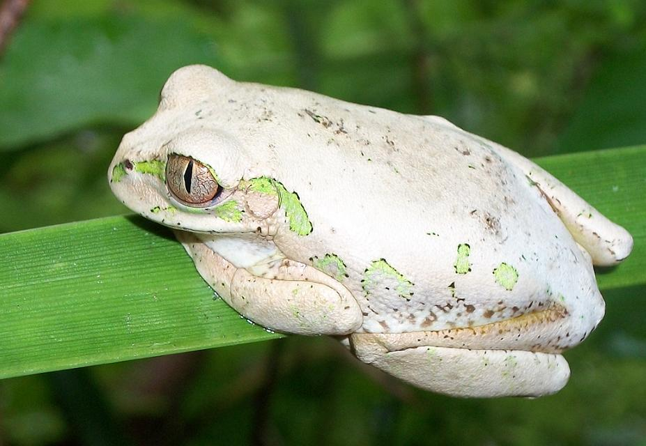 Leptopelis natalensis from Bazely, KwaZulu-Natal south coast. Picture taken in rainy weather.